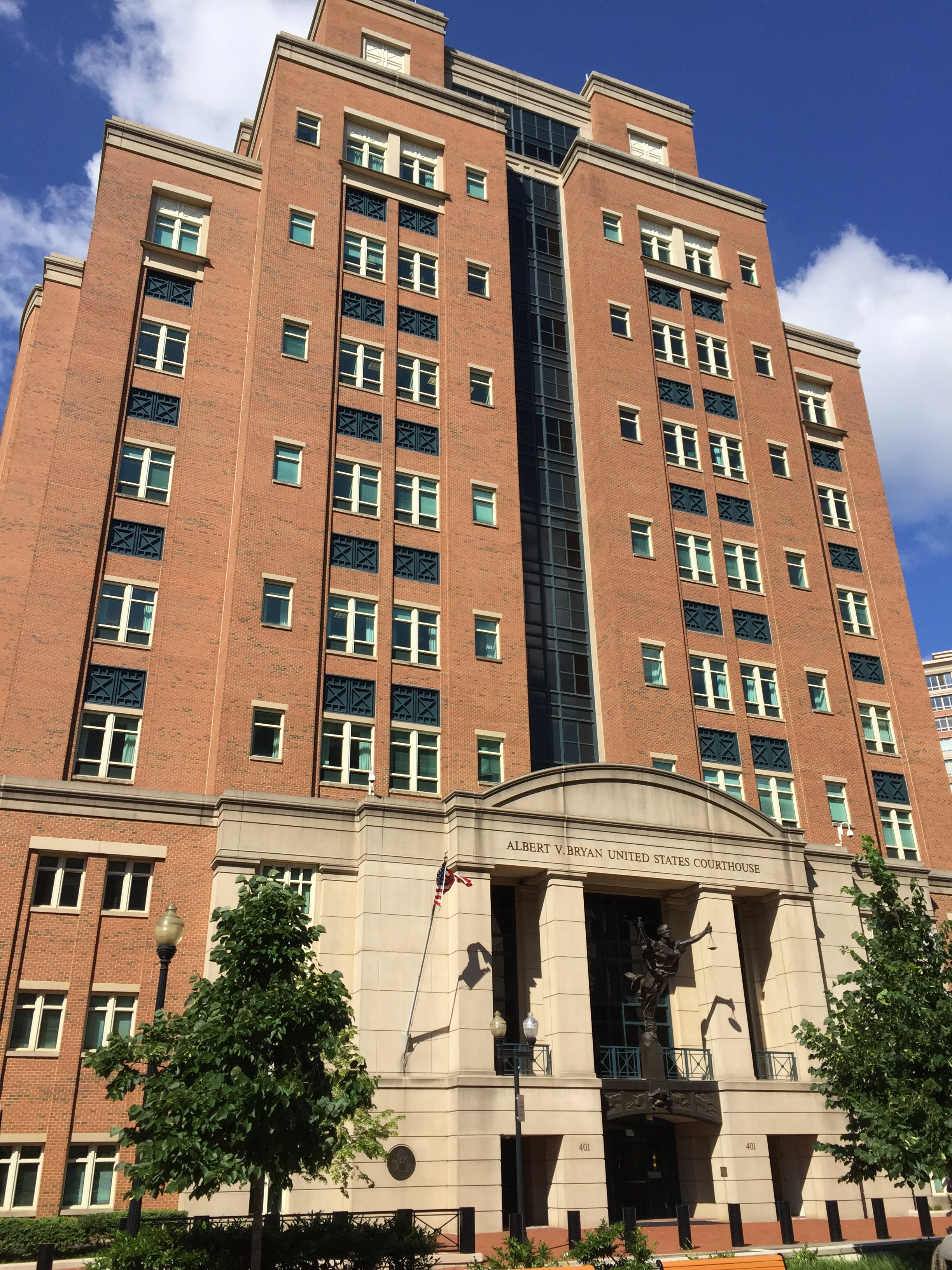 Albert V. Bryan Federal Courthouse in Alexandria, Virginia in 2019